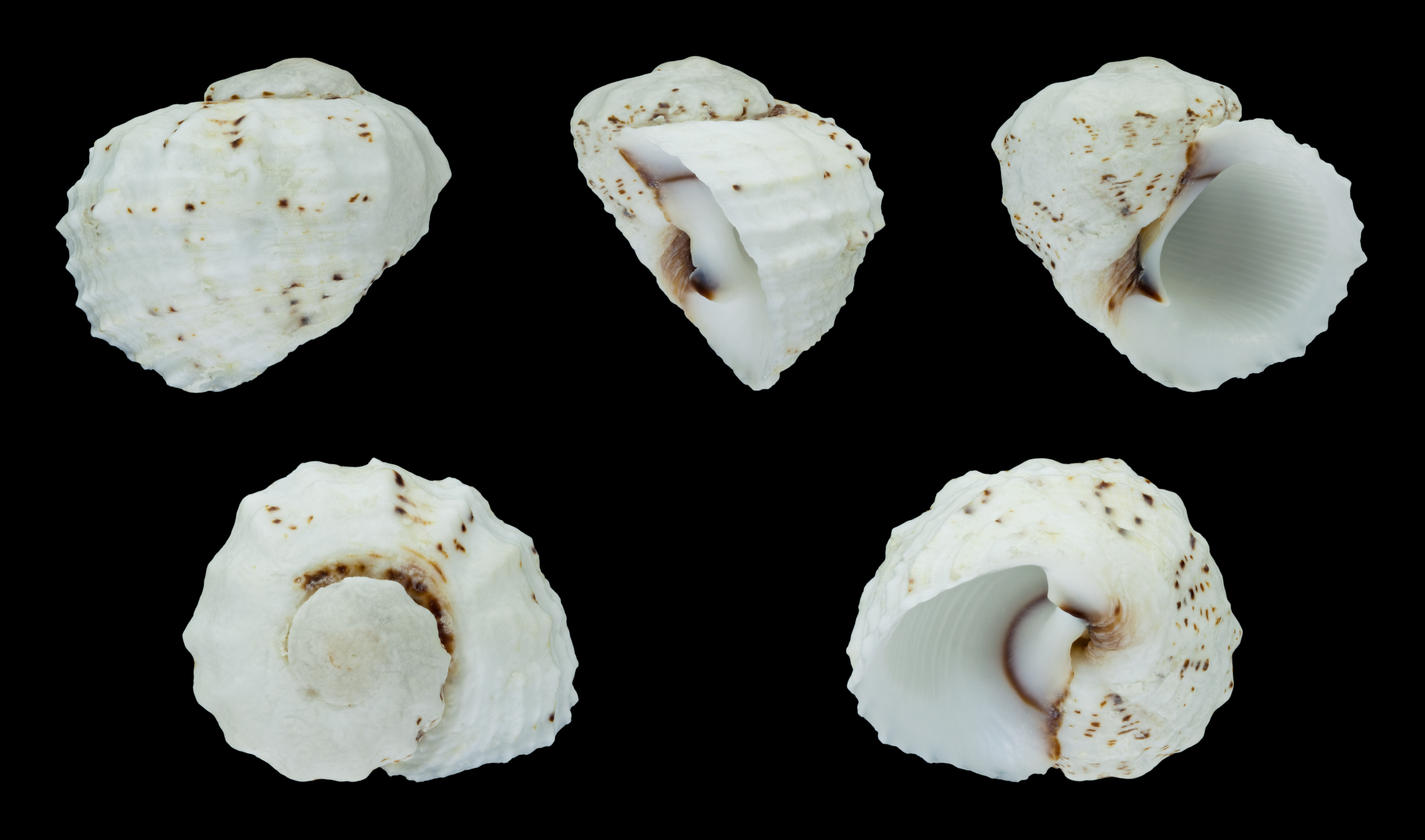 Indomodulus tectum (Gmelin, 1791), Glowing Modulus; Heigth 2.2 cm; Originating from the Nacala Bay, Mozambique; Shell of own collection, therefore not geocoded.